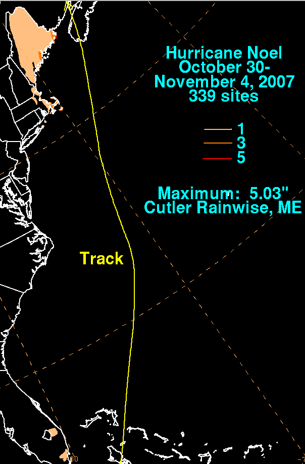 Storm total rainfall map of Hurricane Noel during October and November 2007.